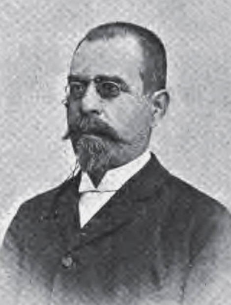 Hestia (1876) Author: Diomedes, Paulos Subject: Greek literature, Modern; Greek periodicals Publisher: [Athēnēsi : s.n. Year: 1894 Possible copyright status: NOT_IN_COPYRIGHT Language: Greek Digitizing sponsor: Google Book from the collections of: Harvard University Collection: americana]